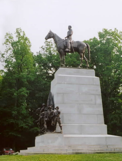 Statue of Lee by Frederick William Sievers, located on the Virginia Monument, Gettysburg, PA, photo by Einar Einarsson Kvaran, Robert E Lee